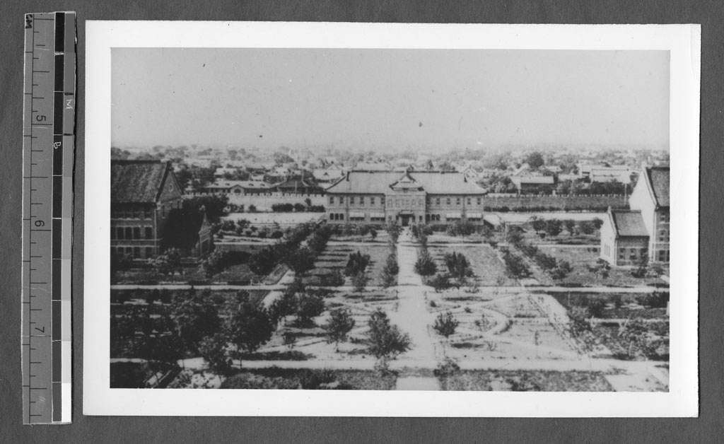 View of Cheeloo campus, Jinan, Shandong, China, ca. 1940, Source: YDS/RG011/414/5872/4073, Yale Divinity Library Special Collections. Uploaded to Wikimedia Commons with permission from Yale Divinity Library.